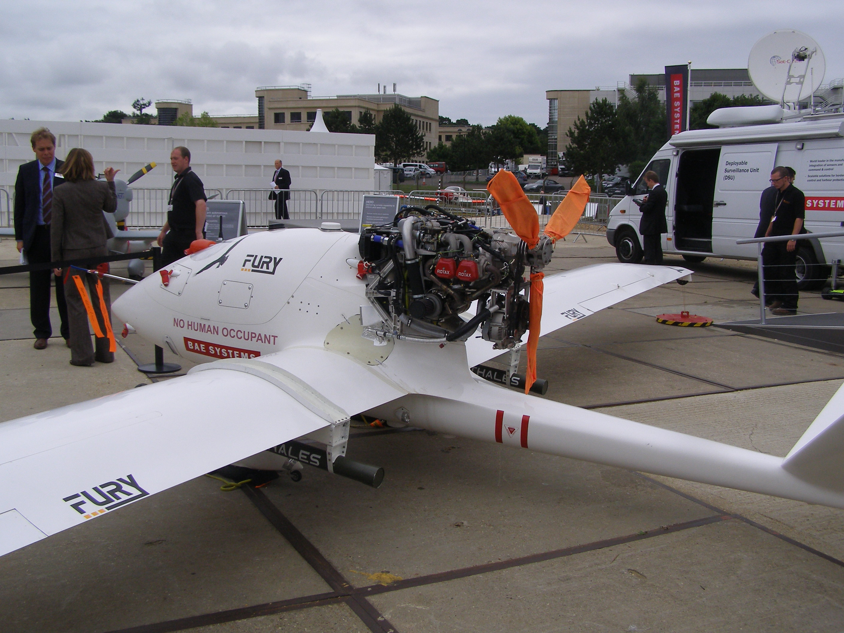 BAE Fury UAV on display at Farnborough Airshow England 2008